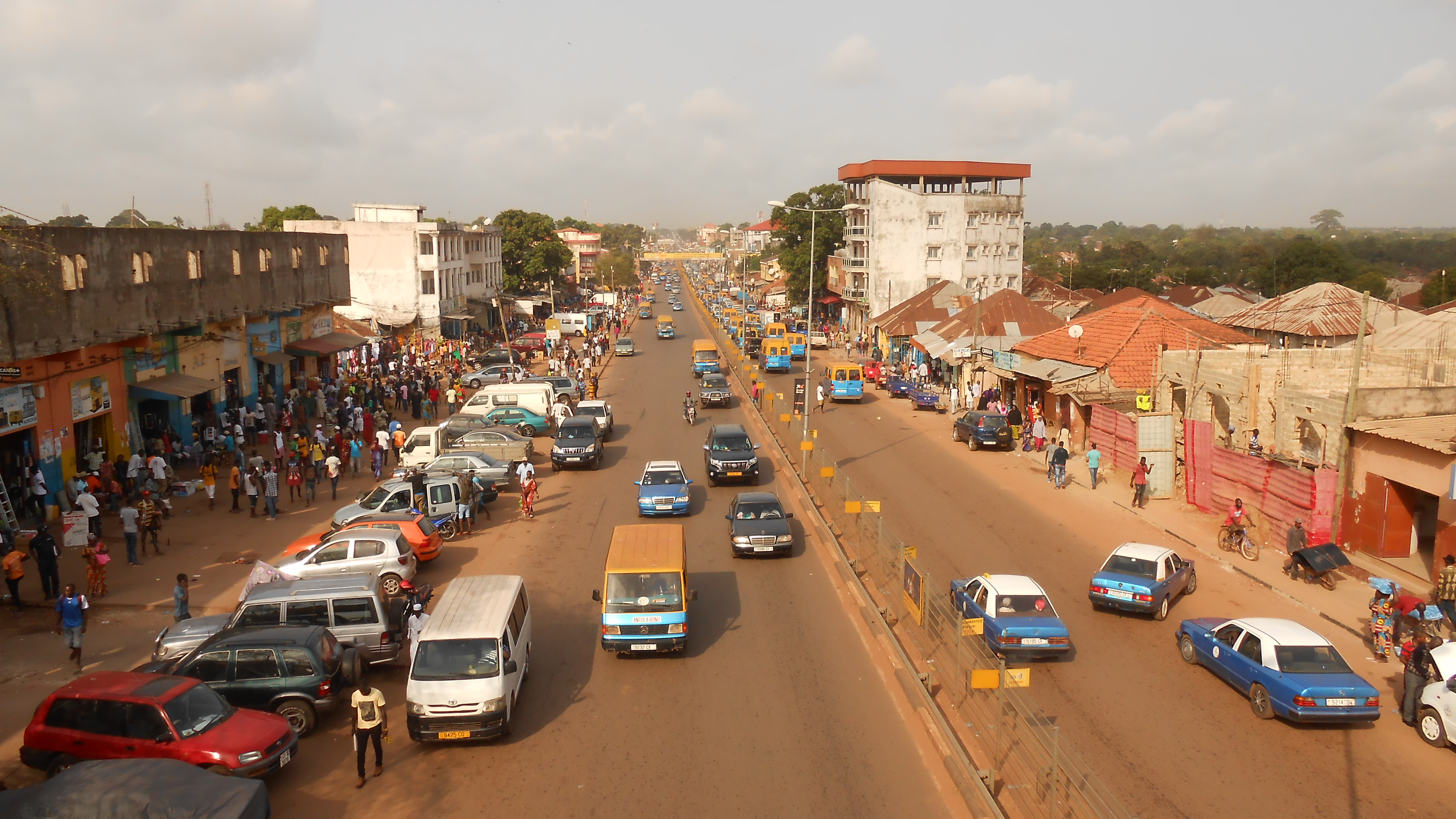 The central Avenida dos Combatentes da Liberdade da Pátria avenue in the capital Bissau, with the Mercado de Bandim market hall on the left.